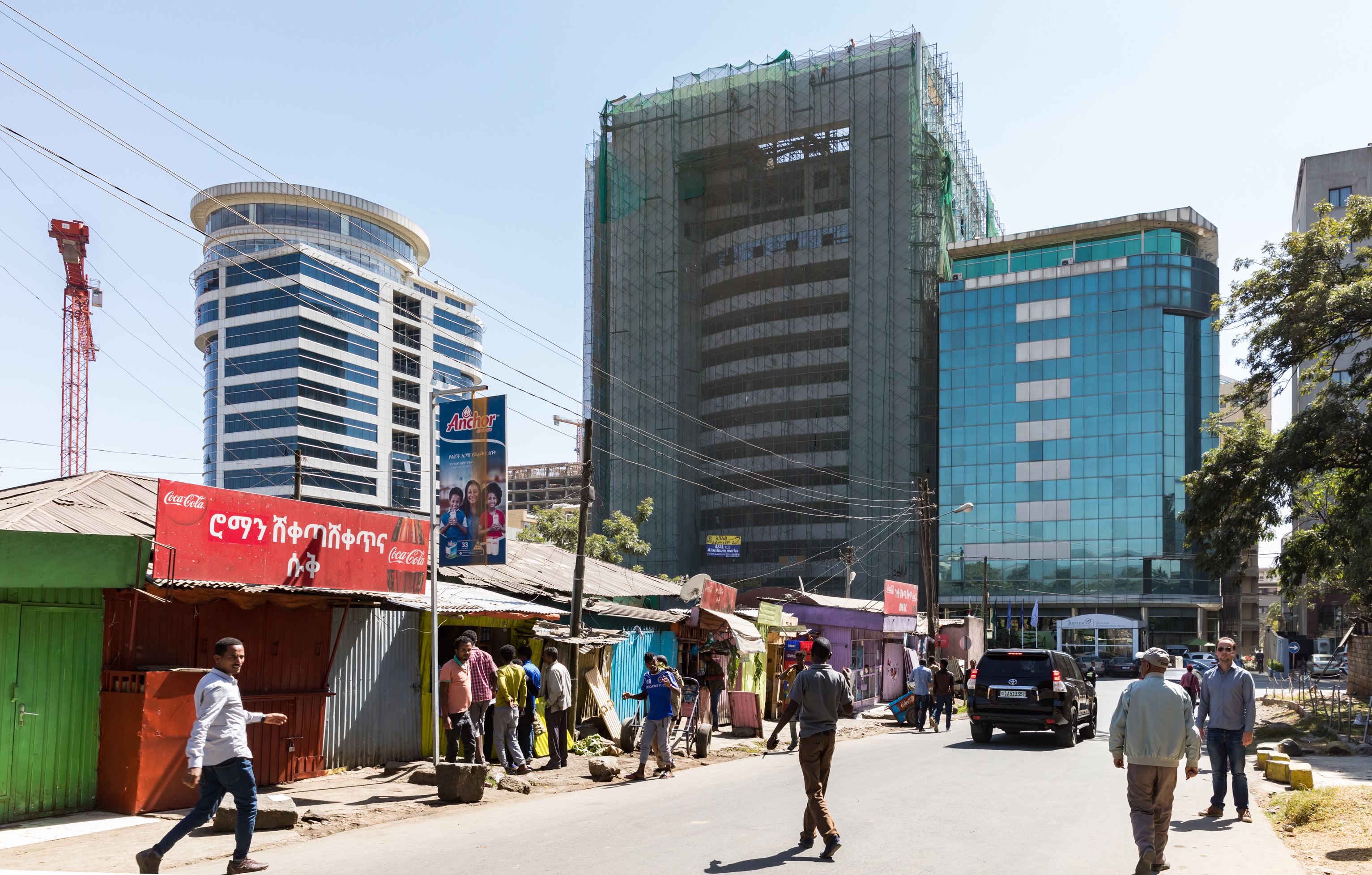 Addis Abeba in Ethiopia